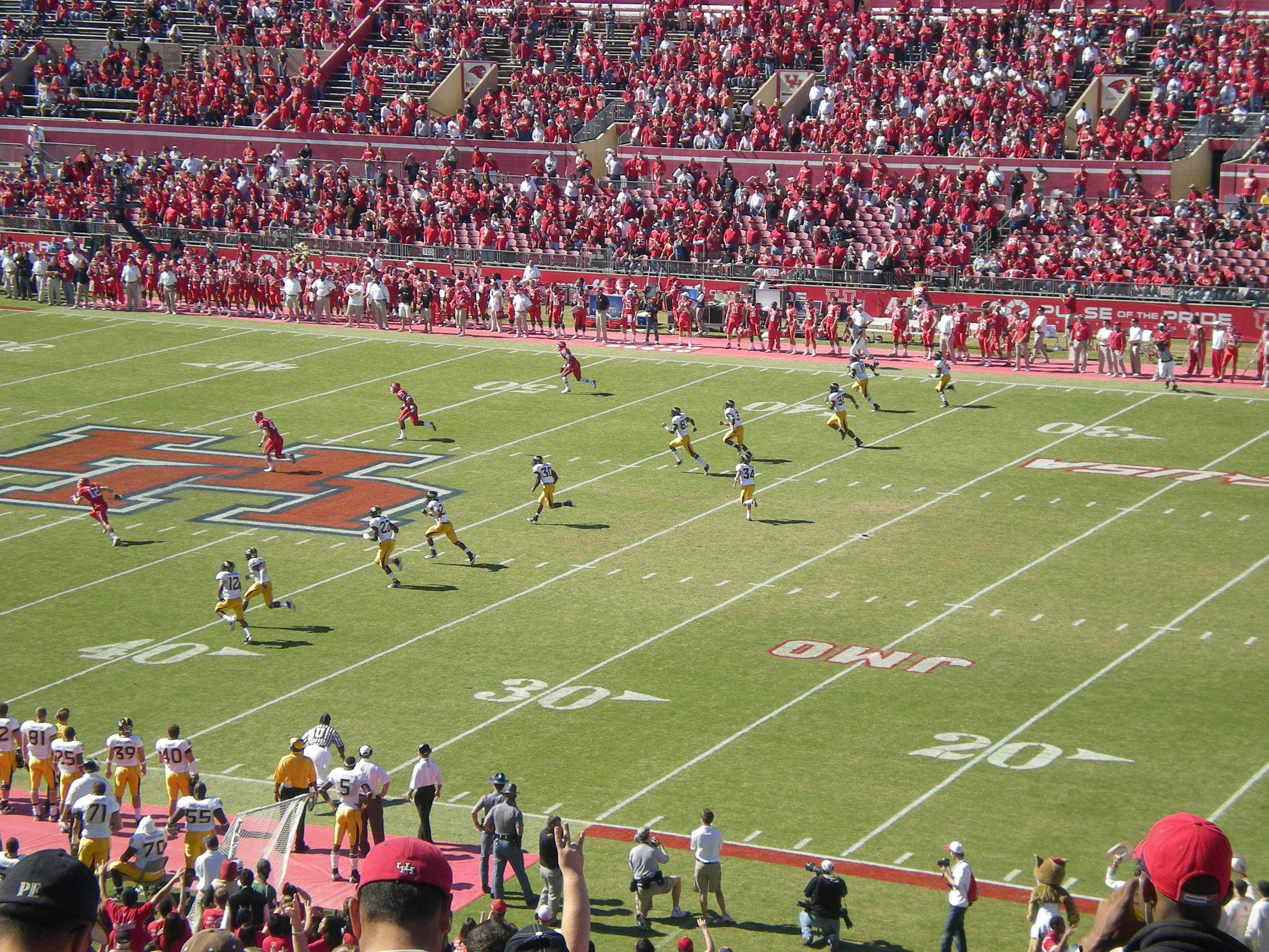 The initials of John O'Quinn on the field of John O'Quinn Field at Robertson Stadium placed by the University of Houston to commemorate the alumnus, former Board of Regents member, benefactor, and namesake of the university during a home game against Southern Miss. O'Quinn had been fatally involved in a car accident two days prior.